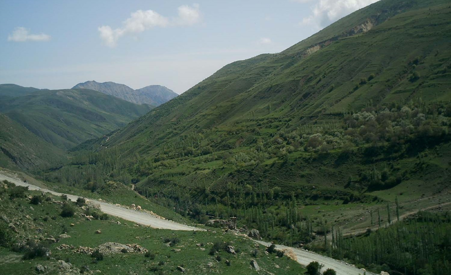 lerd nature